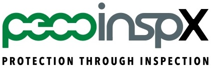 Peco-InspX is a global manufacturer of fill level monitoring and x-ray Inspection systems.